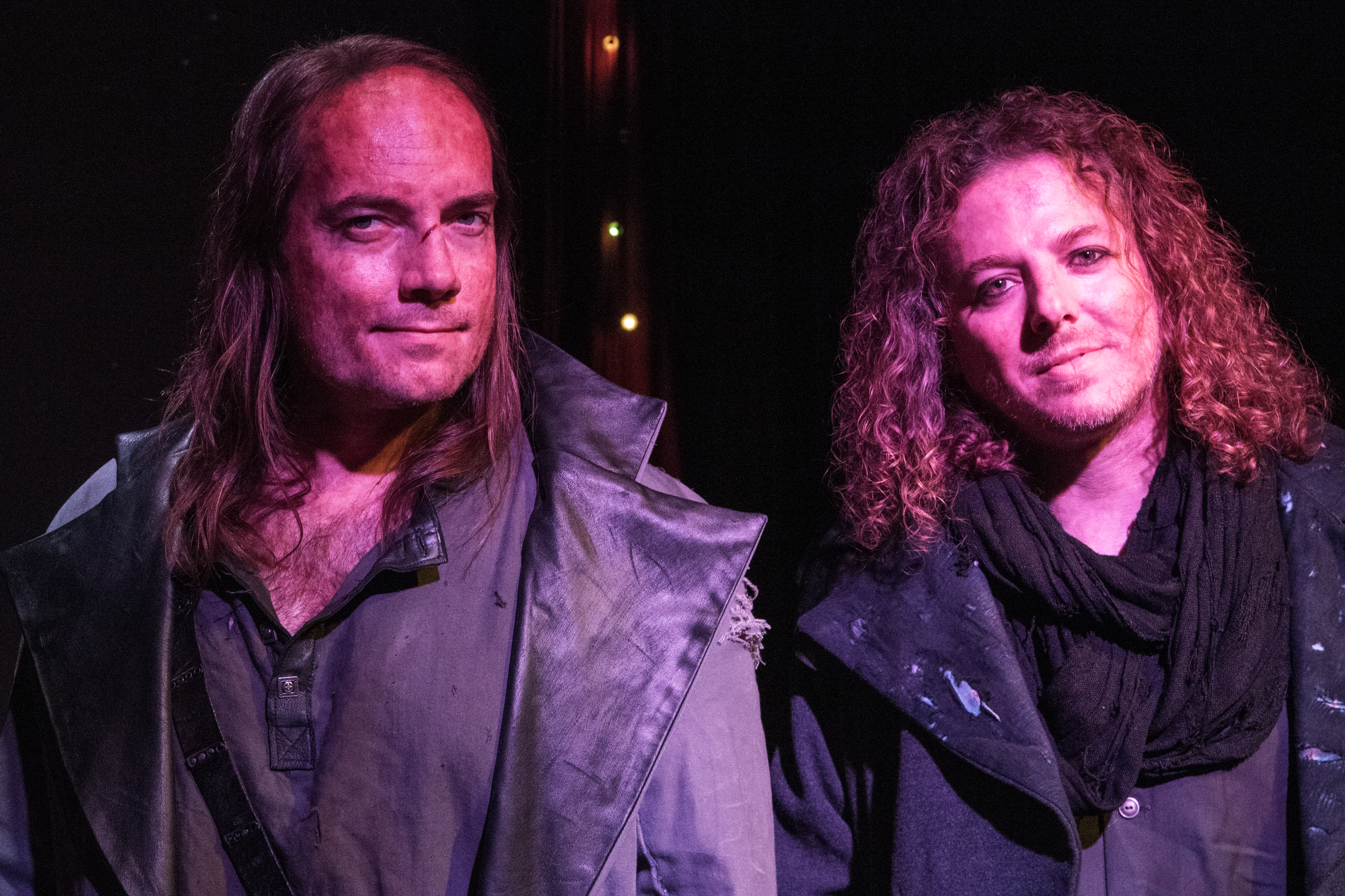 Photo of Composer / Performers Terrance Zdunich and Saar Hendelman as Messrs. Storm and Tender from American Murder Song. Photo by Scott Feinblatt